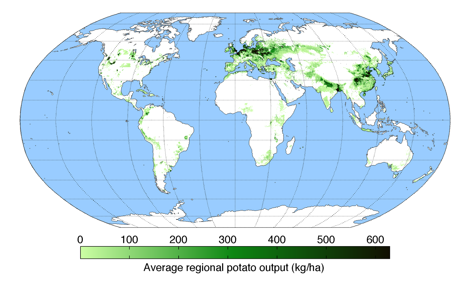 Map of potato production (average percentage of land used for its production times average yield in each grid cell) across the world compiled by the University of Minnesota Institute on the Environment with data from: Monfreda, C., N. Ramankutty, and J.A. Foley. 2008. Farming the planet: 2. Geographic distribution of crop areas, yields, physiological types, and net primary production in the year 2000. Global Biogeochemical Cycles 22: GB1022